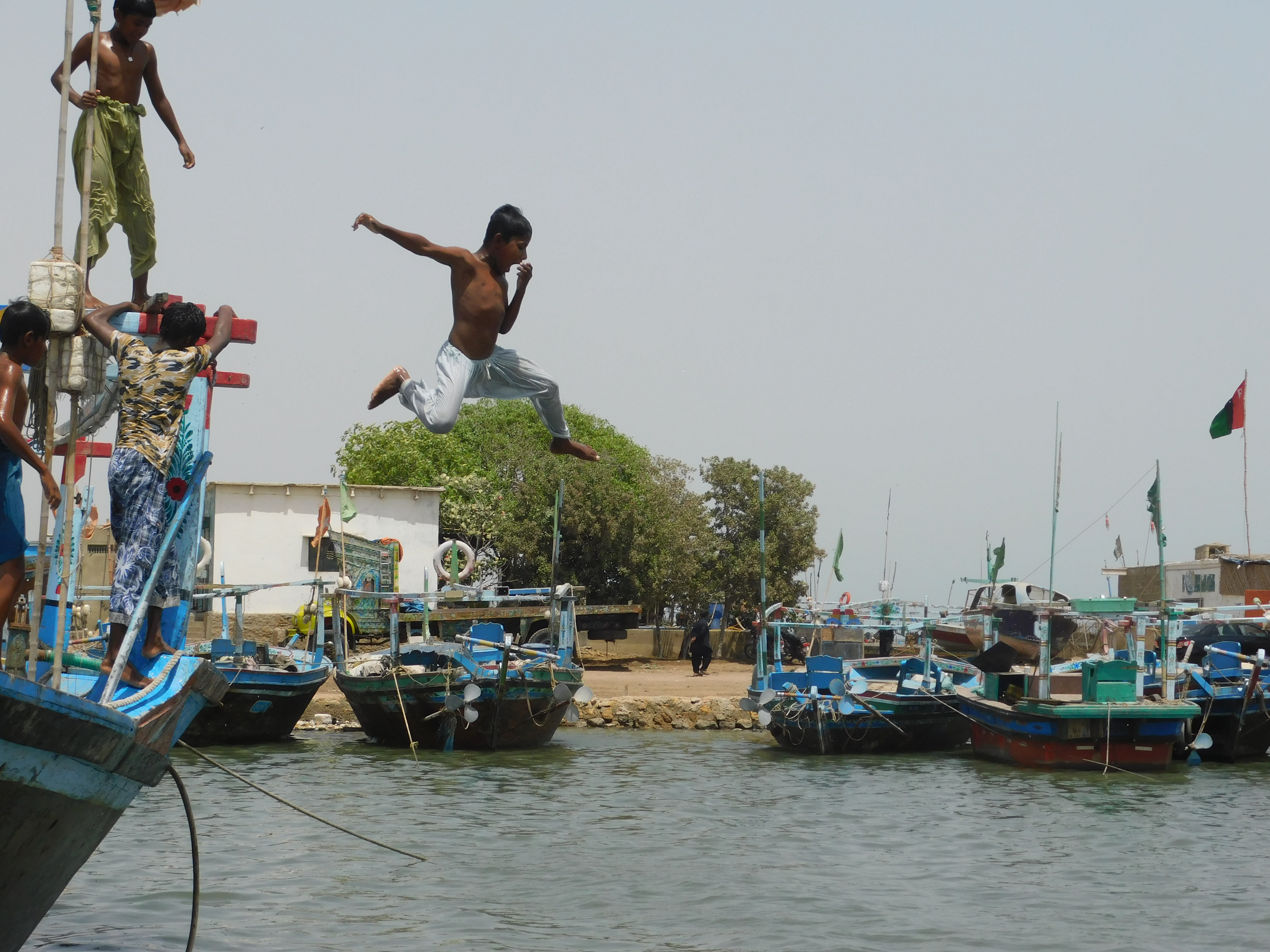 Summer redemption